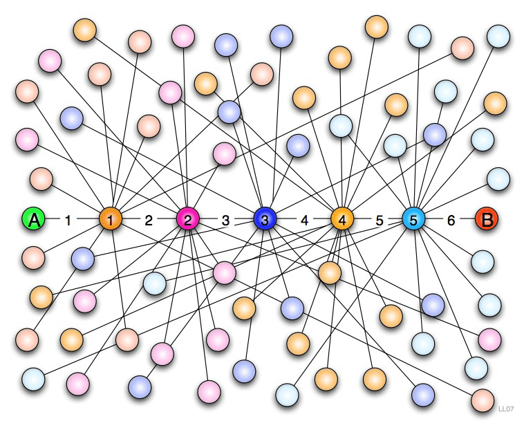 Six degrees of separation: Artistic visualization.